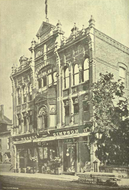 Robert Simpson's store on Queen St. in Toronto Caption "Queen Street: Front of Mr R. Simpson's Dry-Goods Store"